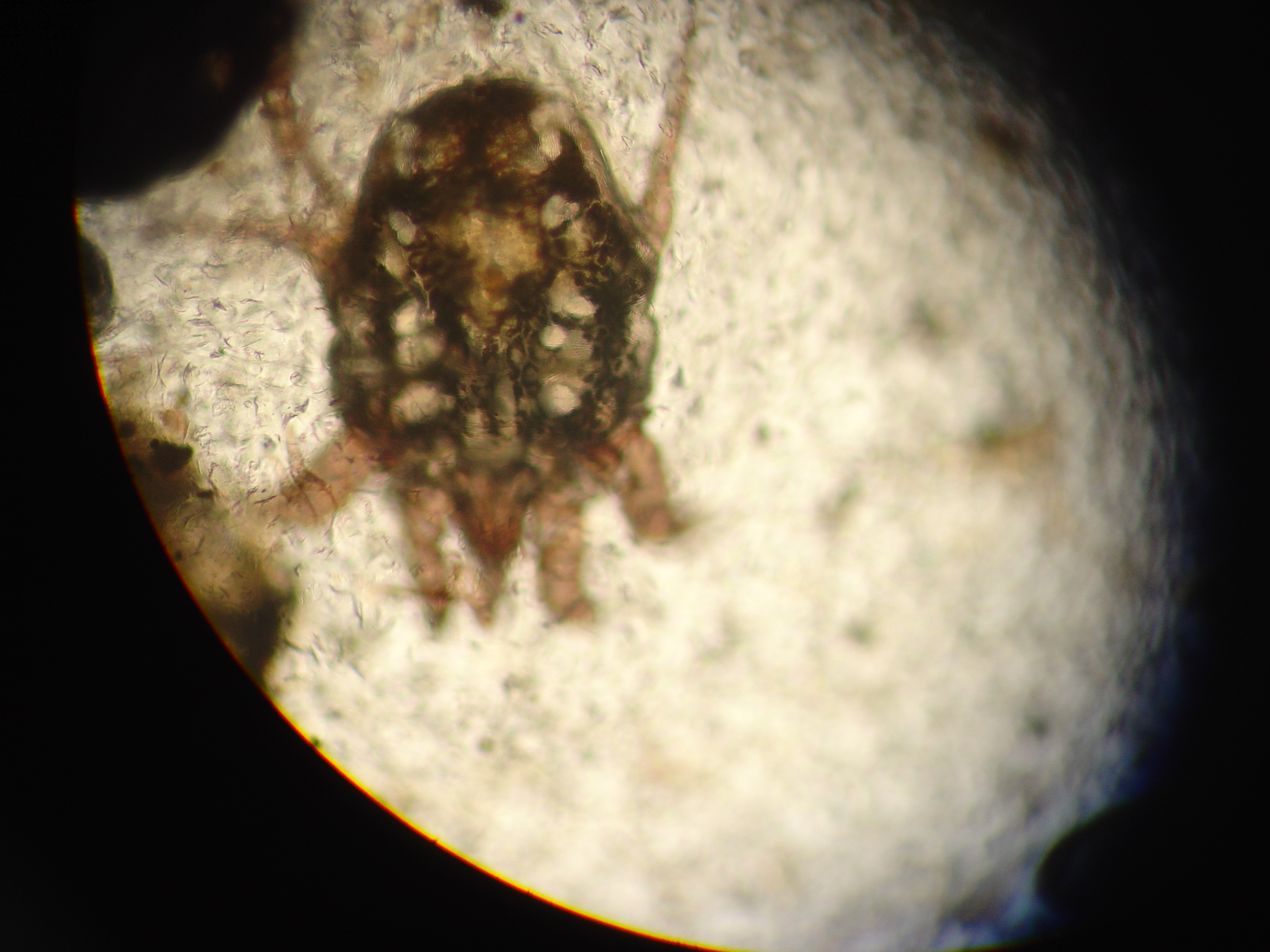 Psoroptes cuniculi, the rabbit ear mite, seen through a microscope at 100x.